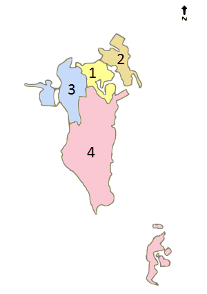 New Governorates of Bahrain 2014